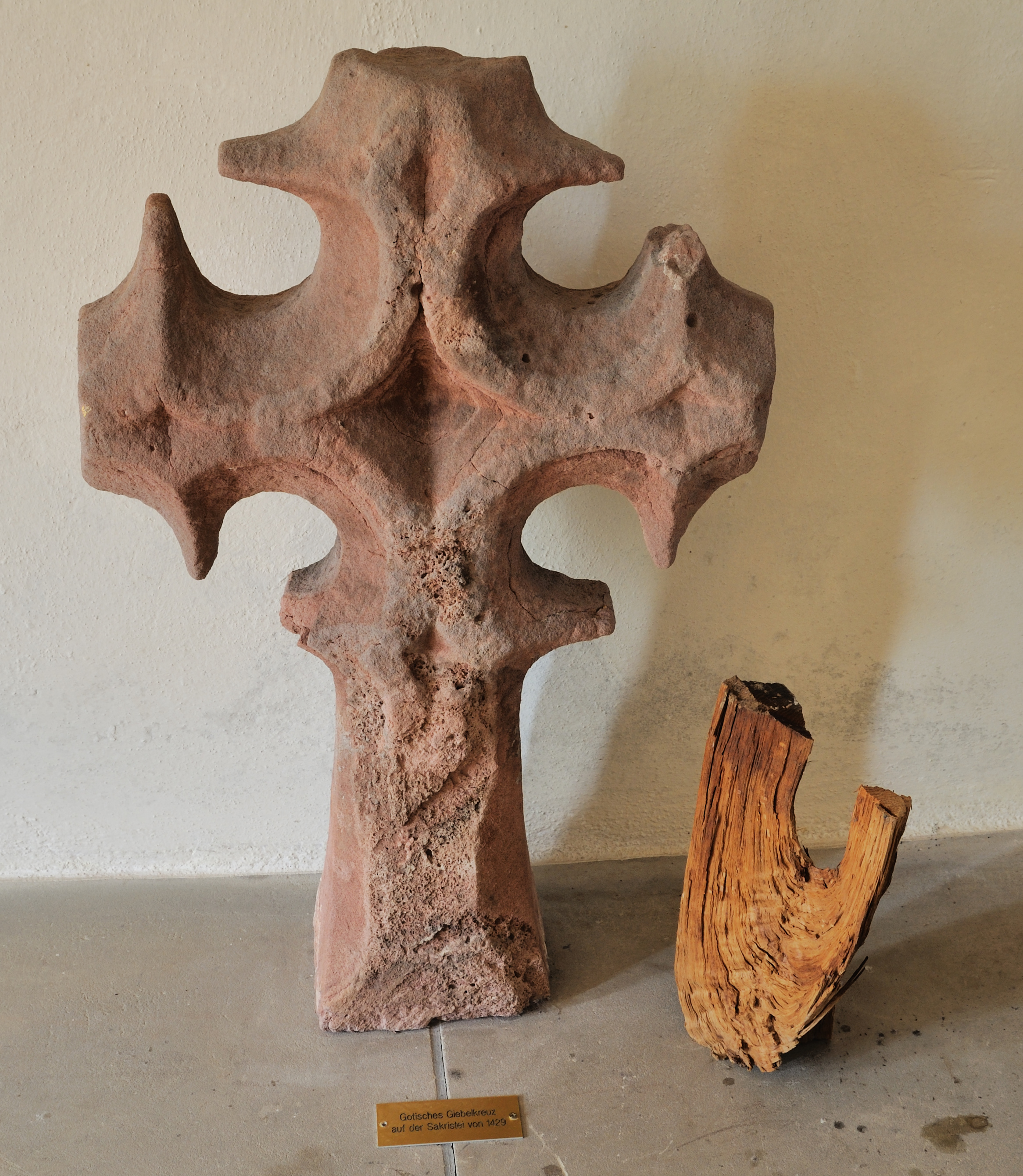 Niedereggenen: Protestant Church